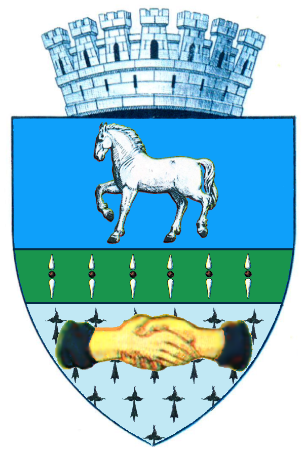 Alexandria.